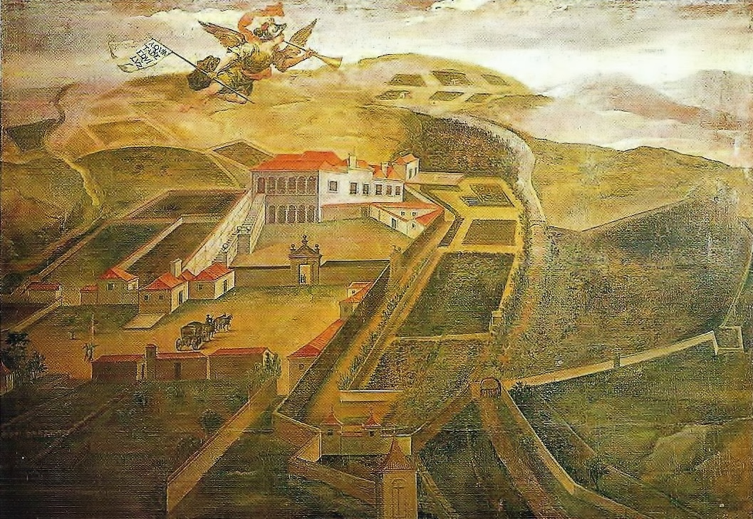 Queluz Estate (17th-century painting at Villa Mombello, Imbersago, Italy).